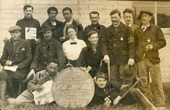 Quarantine Station Didam